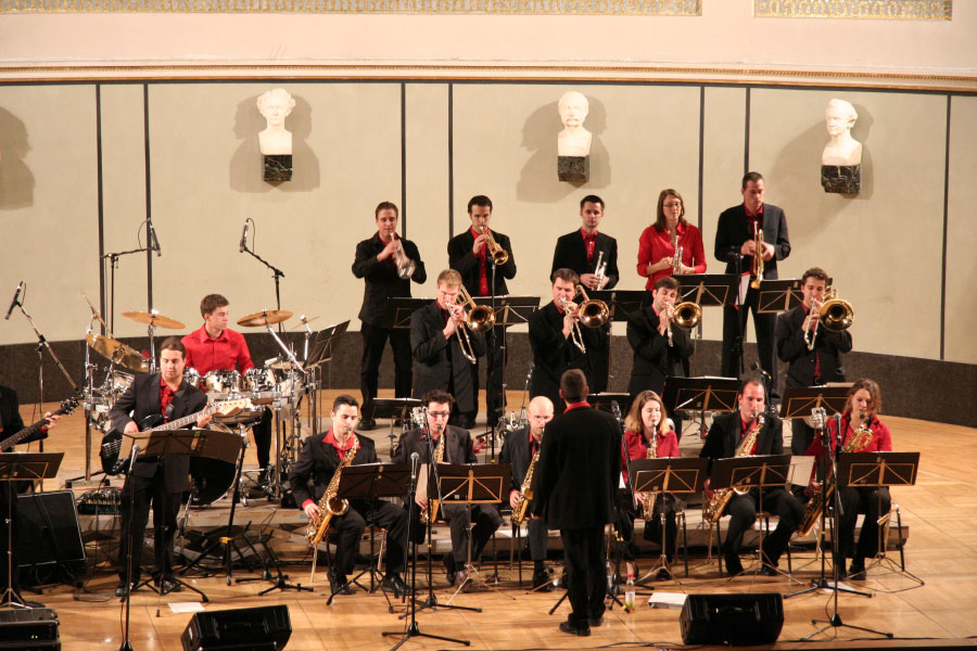 Big Band of the Munich University of Applied Sciences at Concert in the Great Hall of the Ludwig Maximilian University, Munich